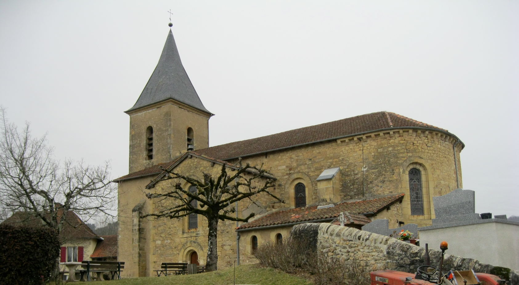 View of Terrou church, in Lot department in France